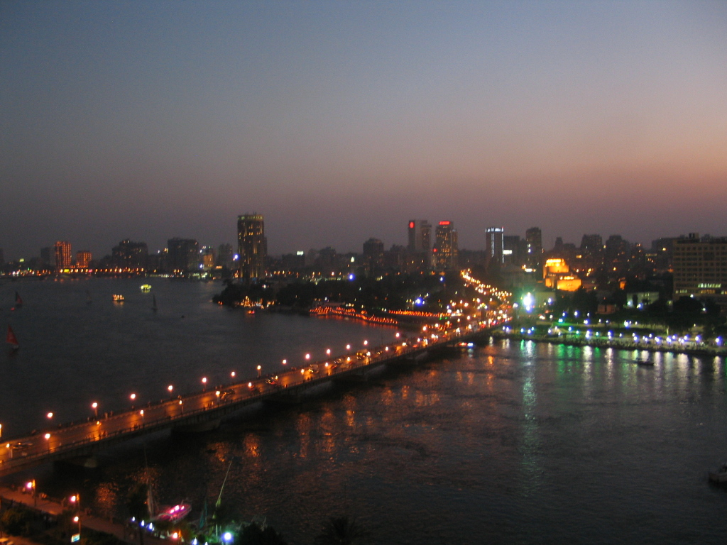 Cairo by night